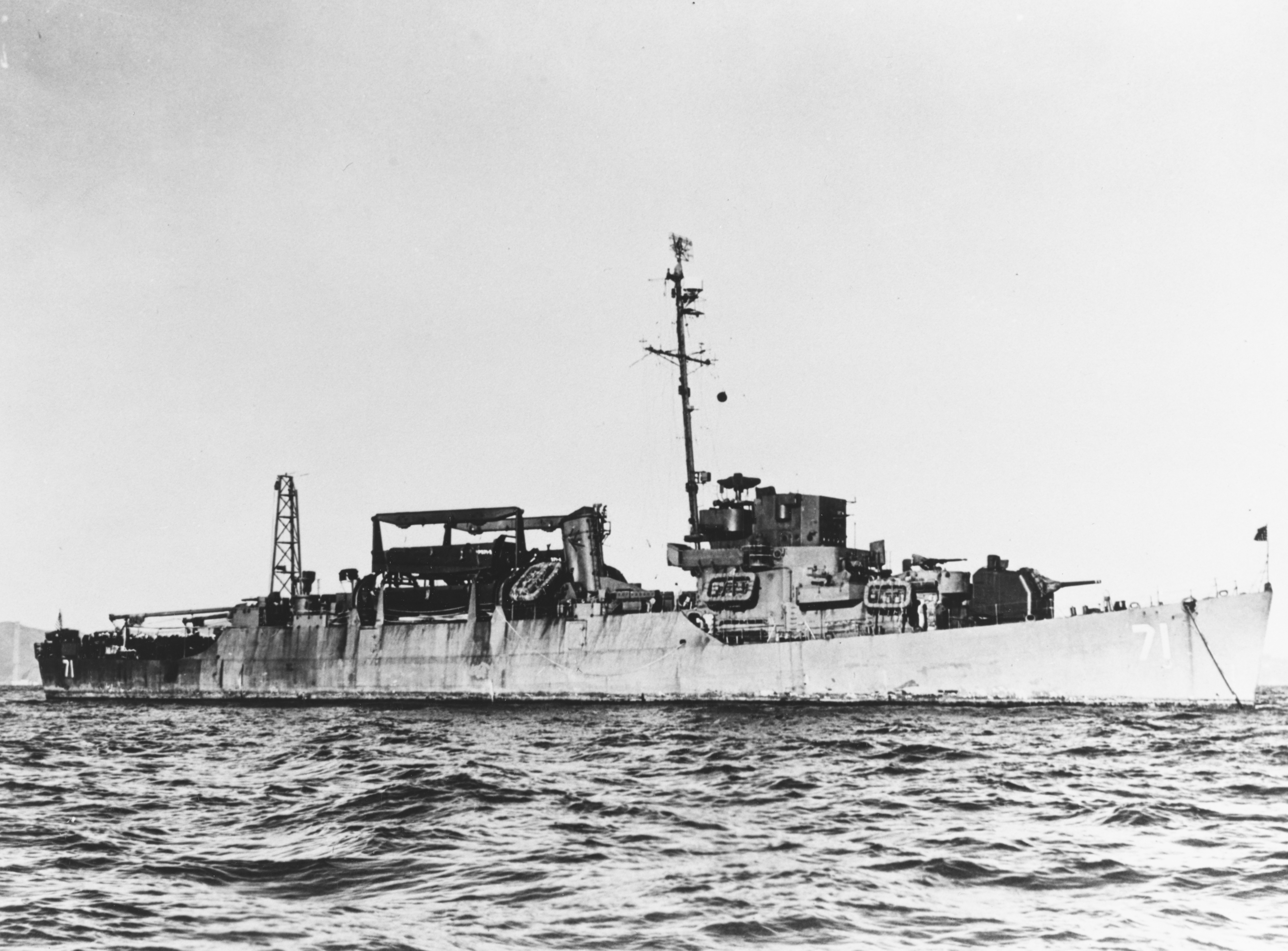 The U.S. Navy high-speed transport USS Odum (APD-71) anchored off San Francisco, California (USA), in late 1945, probably upon her return to the U.S. following the end of World War II.